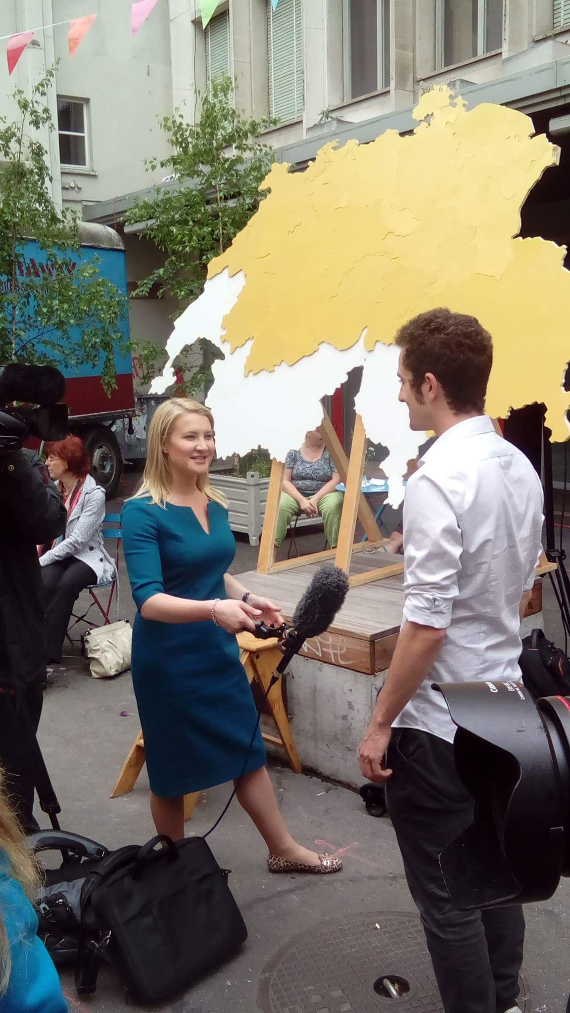 Right after the basic income referendum in Switzerland 2016 the the pro-basic income activists organised a party. National as well as international media were there to cover the event. Among them Reuter which did some interviews.